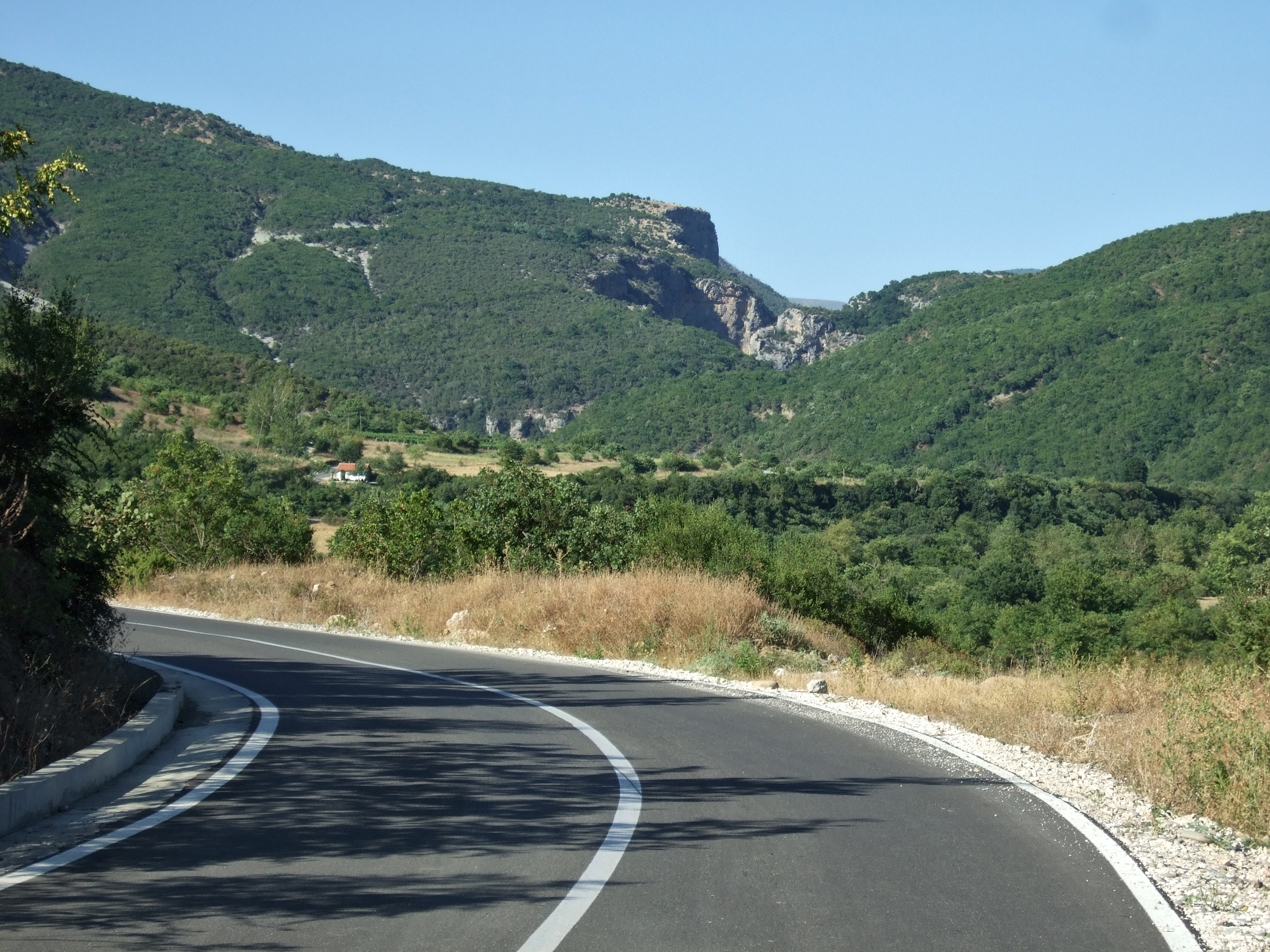 View from south west at the water gap of river Lengarica at Banjat e Benjës (source name: dscf_F30-2_011676_Bënja_-_Durchbruch_der_Lengatica_dt.jpg)